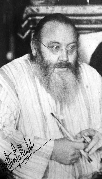 Repro Negative. Signed portrait of Dr. P.V. Stein Callenfels